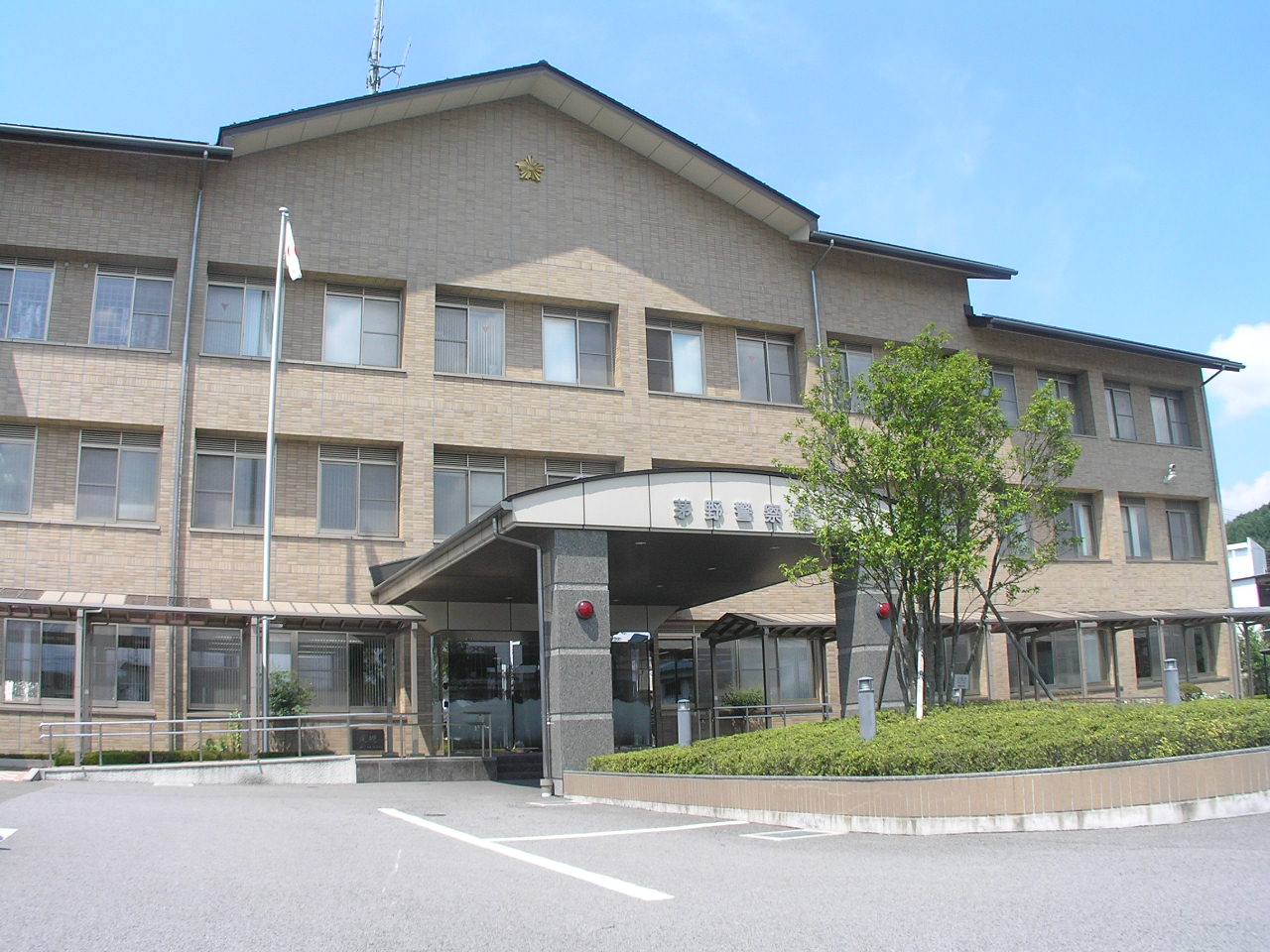 Chino police station-茅野警察署